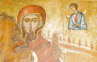 Saint Apostles Church in Molyvdoskepastos Saint Mary 1645